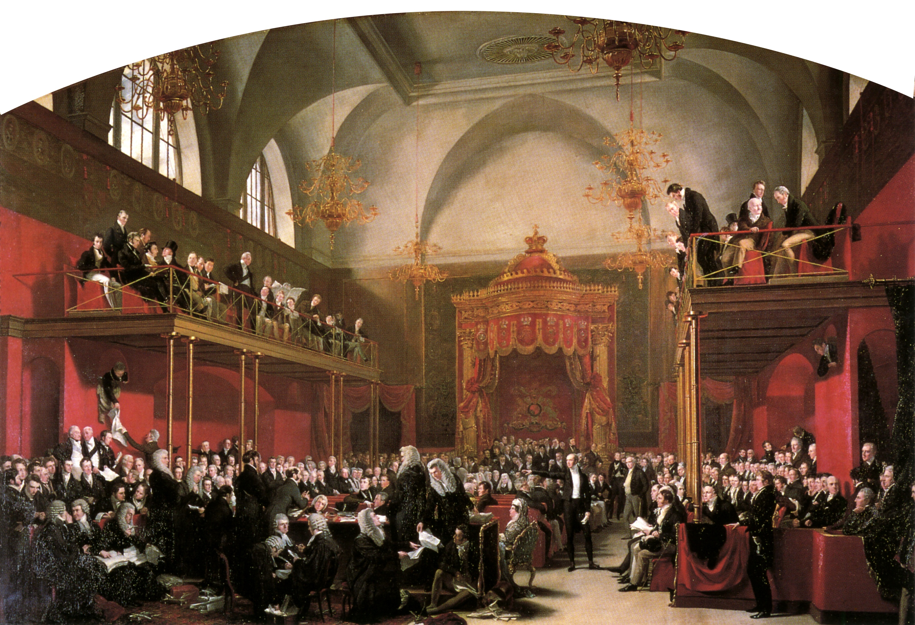 This image is a JPEG version of the original PNG image at File: Trial of Queen Caroline by Sir George Hayter.png. Generally, this JPEG version should be used when displaying the file from Commons, in order to reduce the file size of thumbnail images. However, any edits to the image should be based on the original PNG version in order to prevent generation loss, and both versions should be updated. Do not make edits based on this version. See here for more information. The Trial of Queen Caroline, by Sir George Hayter, 1820-1823. National Portrait Gallery: NPG 999 While Commons policy accepts the use of this media, one or more third parties have made copyright claims against Wikimedia Commons in relation to the work from which this is sourced or a purely mechanical reproduction thereof. This may be due to recognition of the "sweat of the brow" doctrine, allowing works to be eligible for protection through skill and labour, and not purely by originality as is the case in the United States (where this website is hosted). These claims may or may not be valid in all jurisdictions. As such, use of this image in the jurisdiction of the claimant or other countries may be regarded as copyright infringement. Please see Commons:When to use the PD-Art tag for more information.See User:Dcoetzee/NPG legal threat for original threat and National Portrait Gallery and Wikimedia Foundation copyright dispute for more information. This tag does not indicate the copyright status of the attached work. A normal copyright tag is still required. See Commons:Licensing.